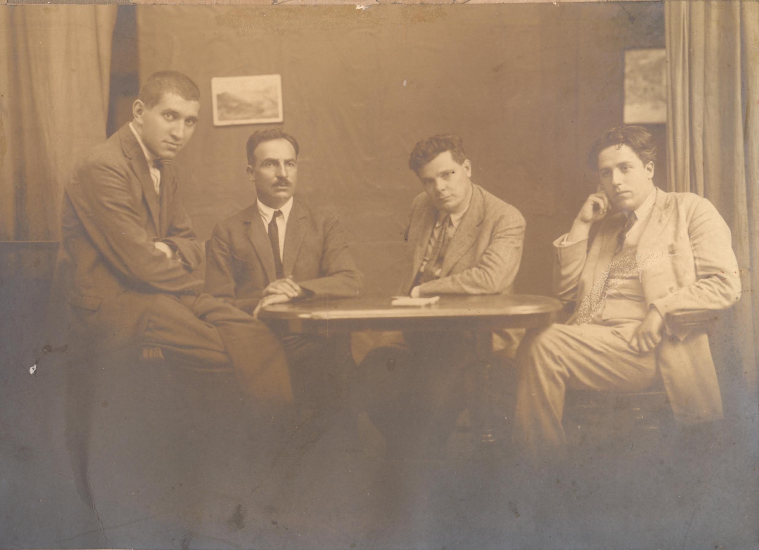 The Razvigor Literary circle: Todor Borov, Elin Pelin, Alexander Balabanov, D. B. Mitov